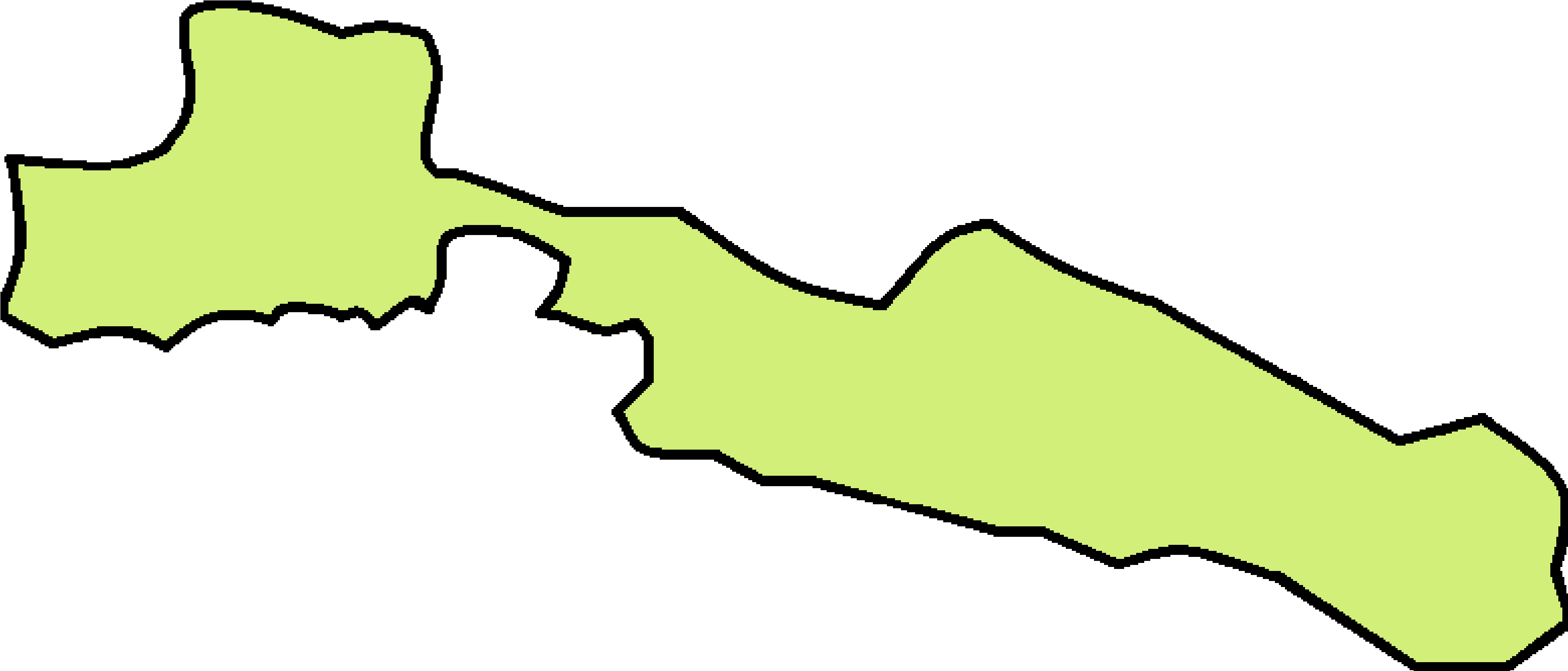 Shape of Beihan Township.